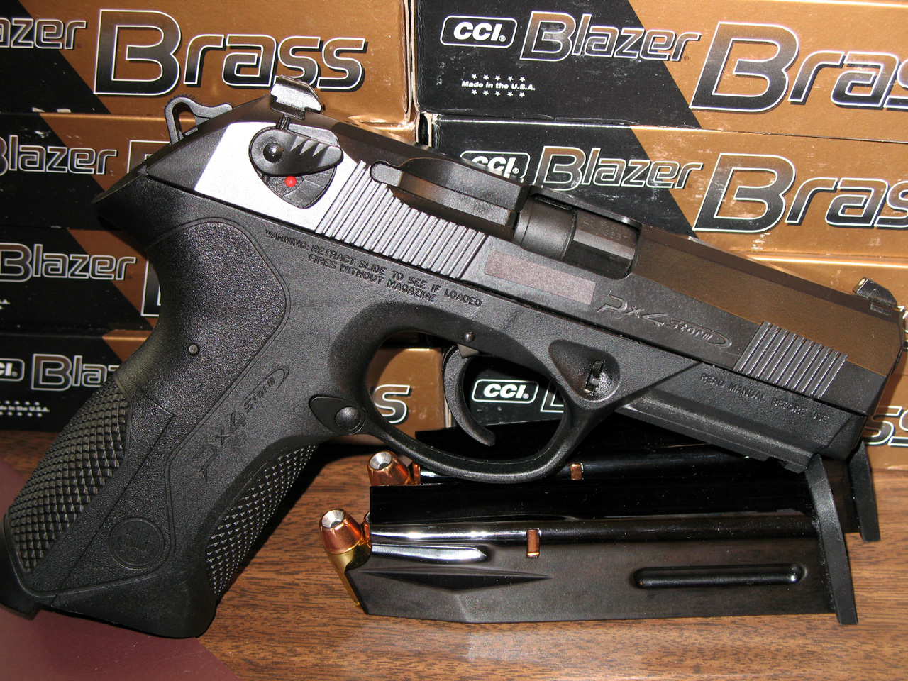 This is a close-up of a .40 S&W Beretta PX4 Storm showing a side view of the barrel with its locking "shoulder" appearing as a square peg in a round hole. A cam slot in the bottom portion of this barrel feature rotates the barrel via a cam tooth in the composite locking block that interfaces both the frame and the slide. Torque from the barrel's 6R rifling augments the cam tooth in rotating the barrel 45 degrees counter-clockwise to unlock the slide from the barrel.